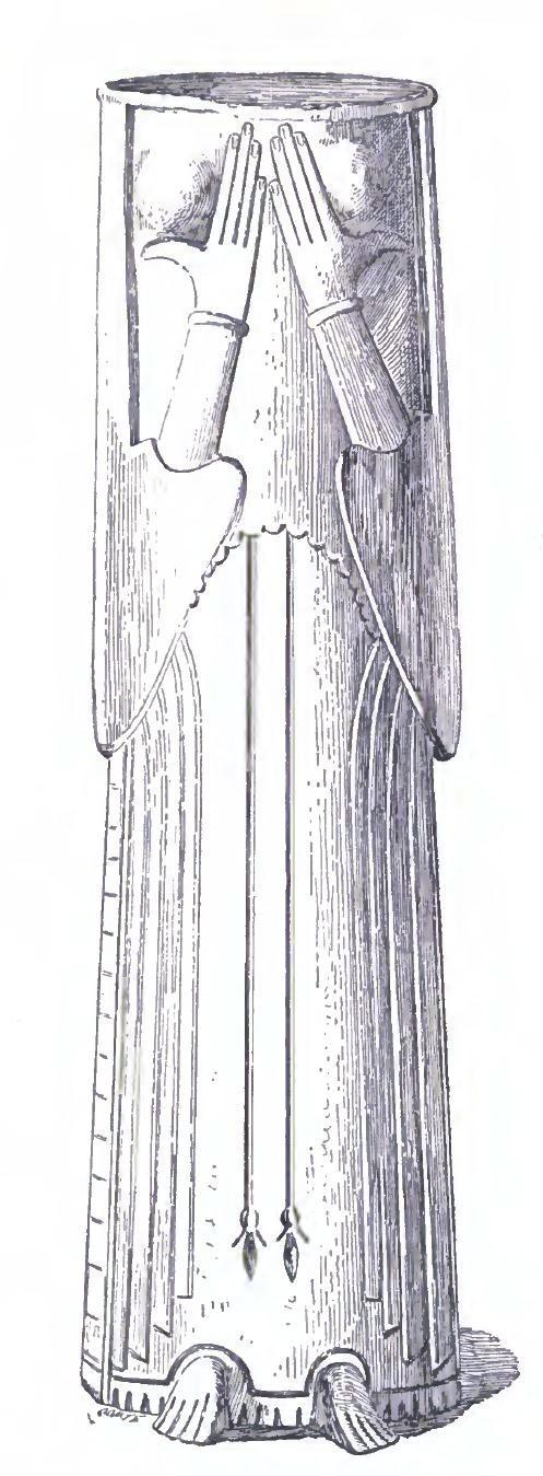 Ivory statuette in the Louvre